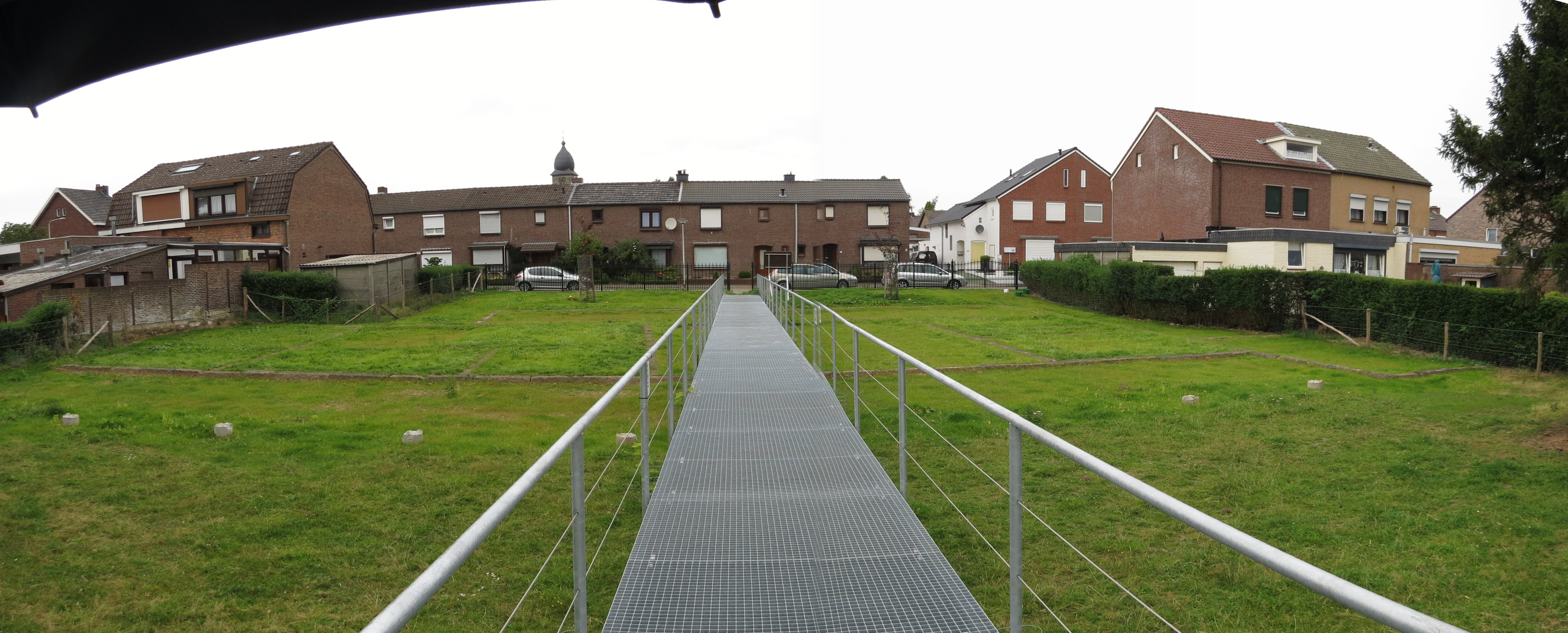 Foundations of the Roman villa rustica in Krichelstraat, Kaalheide, Kerkrade, The Netherlands